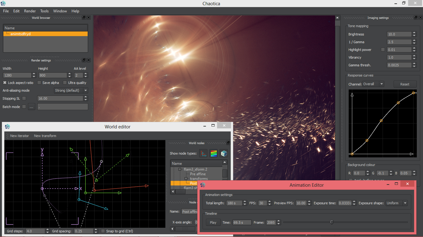 A printscreen of a fractal animation being creaed in Chaotica.